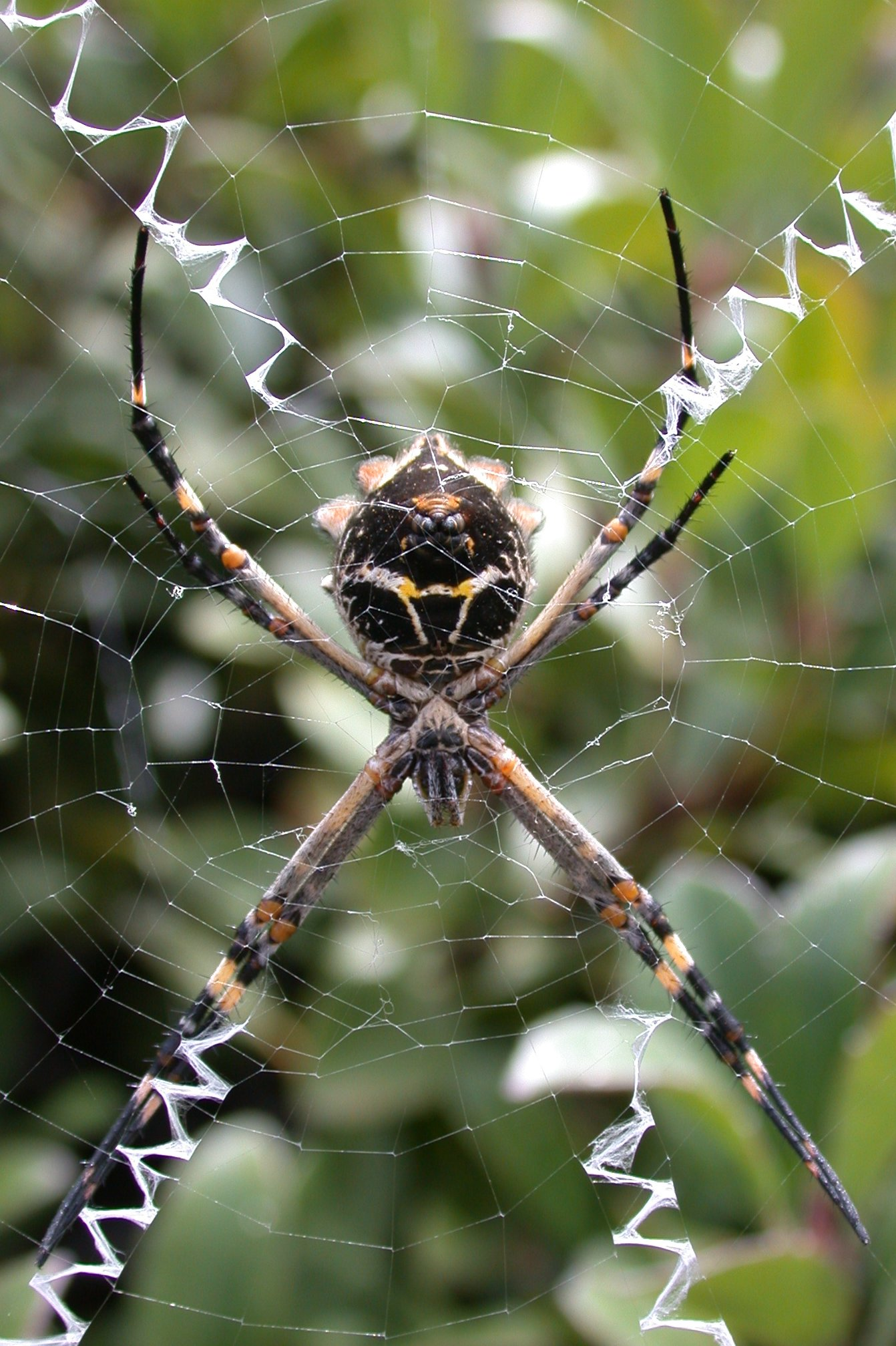 Argiope argentata in Carlsbad, California